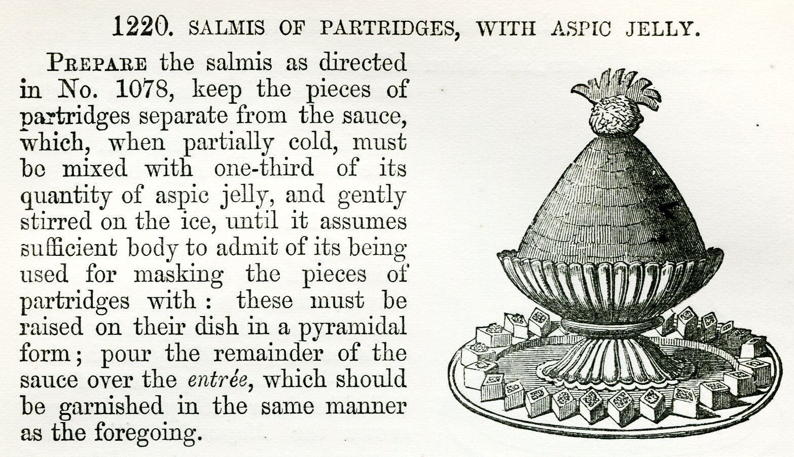 "Salmis of Partridges with Aspic Jelly". Engraving from Charles Elmé Francatelli's The Modern Cook. 28th edition, 1886